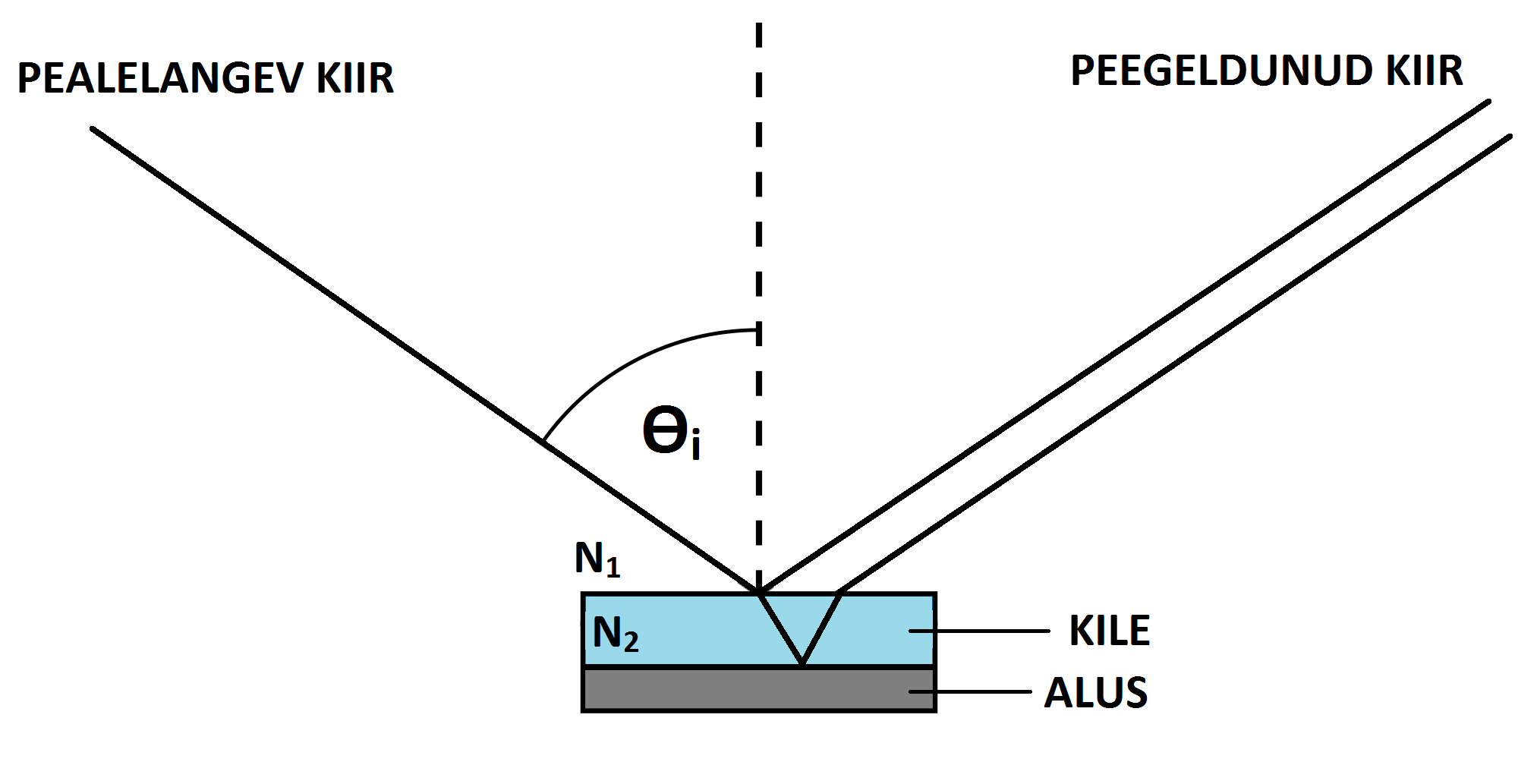 Kiirte käik kiles (lihtne)